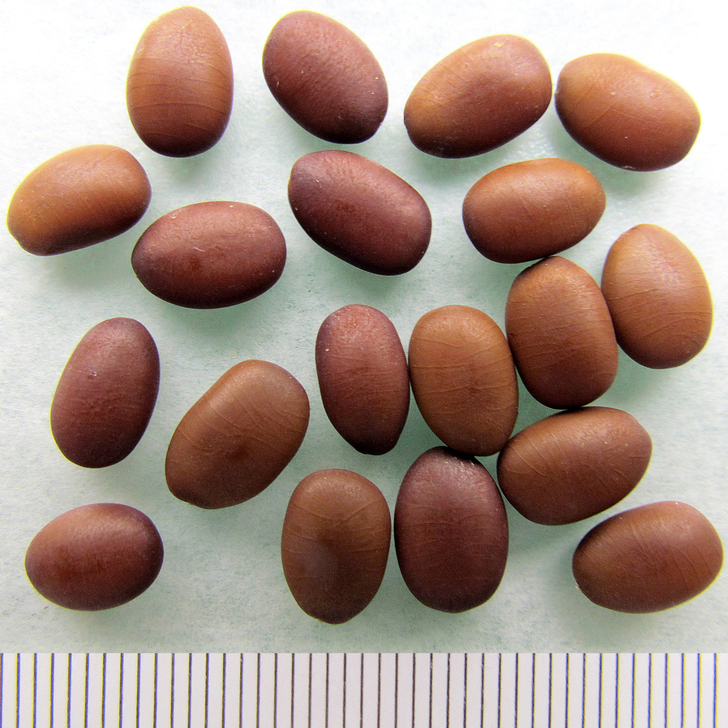 Gleditsia triacanthos seeds